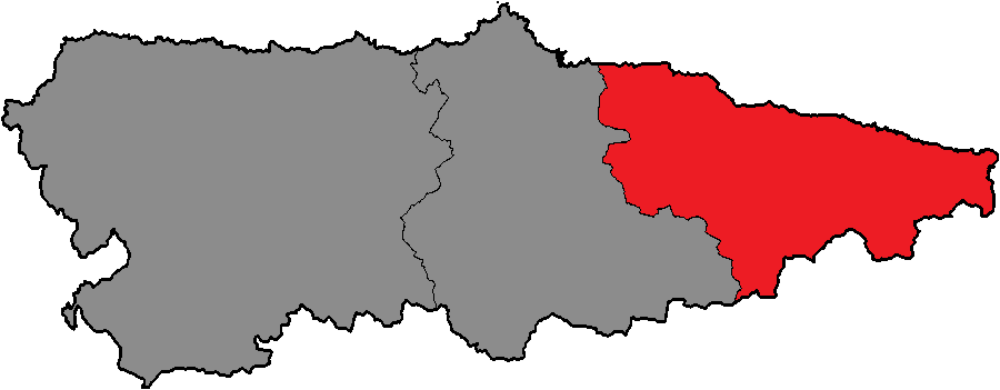 Asturian General Junta Eastern District.